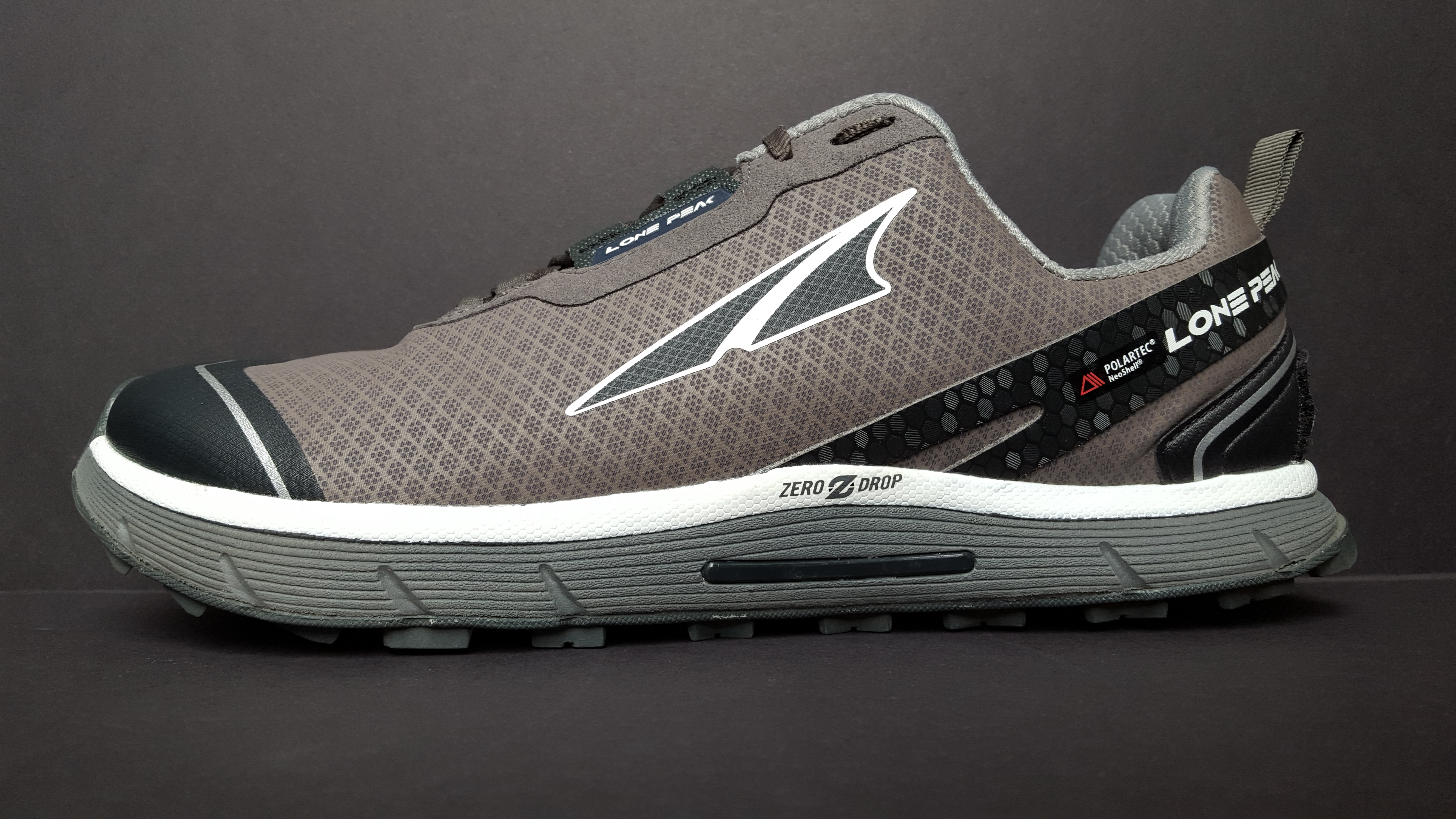 Side view of an Altra trail running shoe - model is "Lone Peak". Highlights a feature of all Altra shoes where the heel and forefoot are the same distance from the ground. For use in this article in English Wikipedia: Altra Running